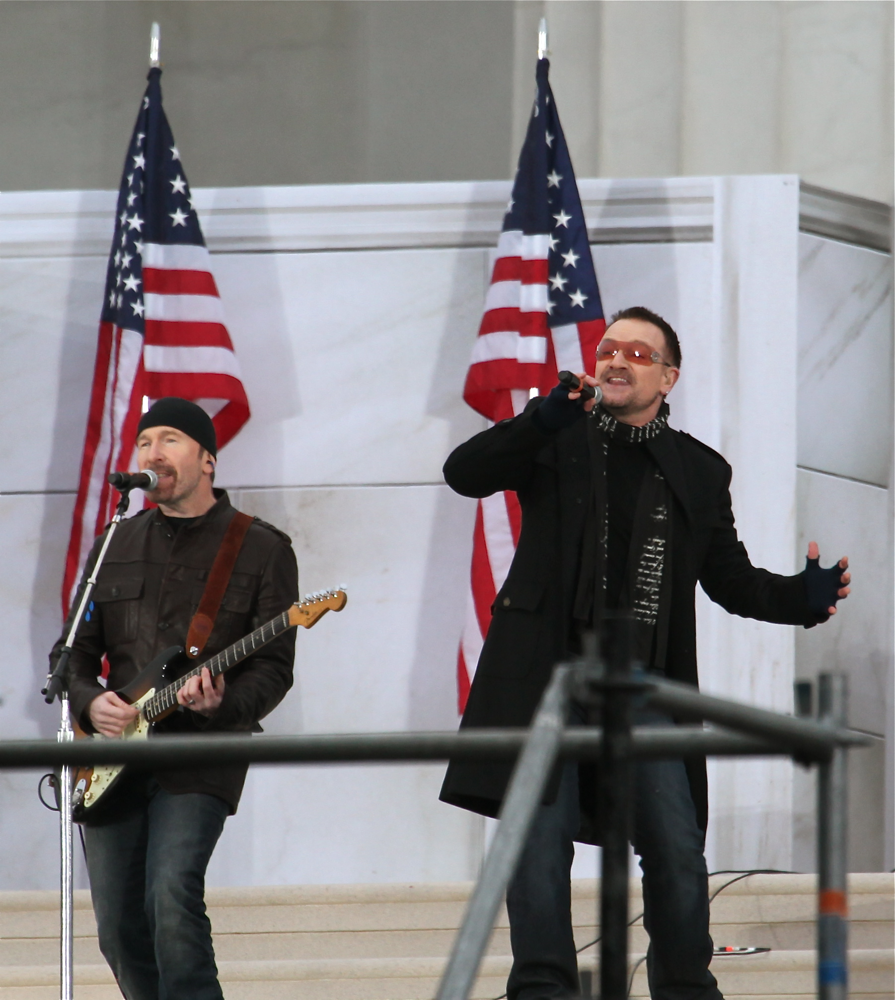 The Edge and Bono croon for change at Lincoln Memorial.